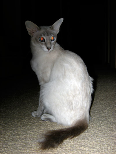 Female Adult Blue Lynx Point Javanese Cat with Bobbed Tail